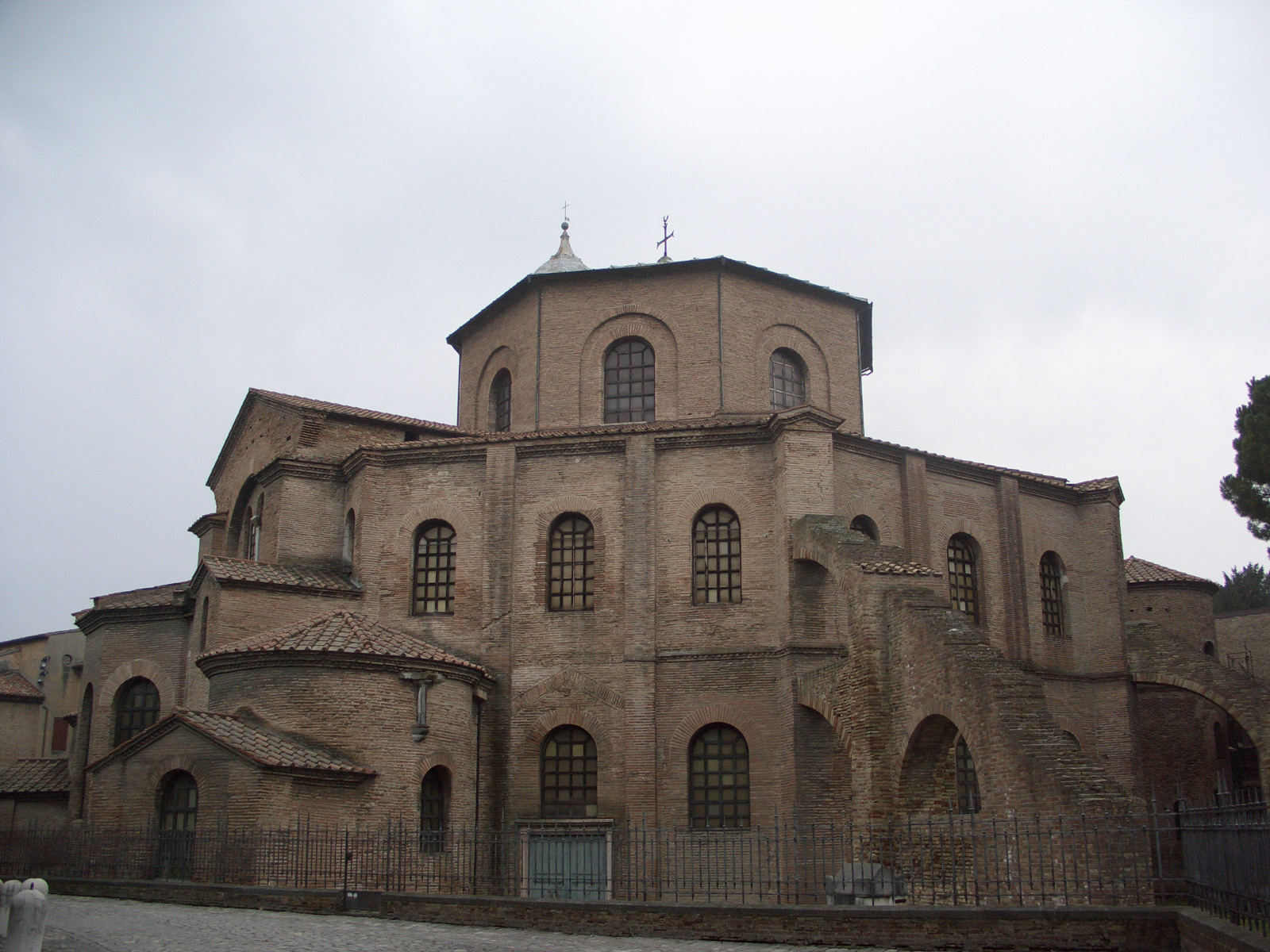 Basilica of San Vitale in Ravenna, Italy.8266_san-vitale